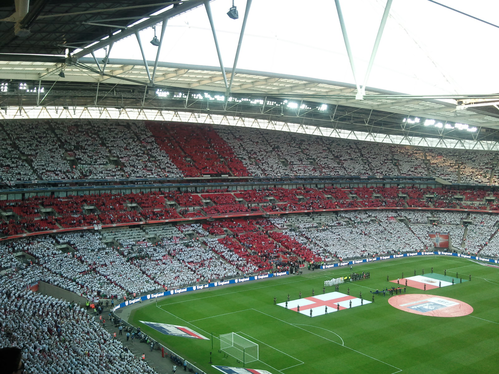 Wembley